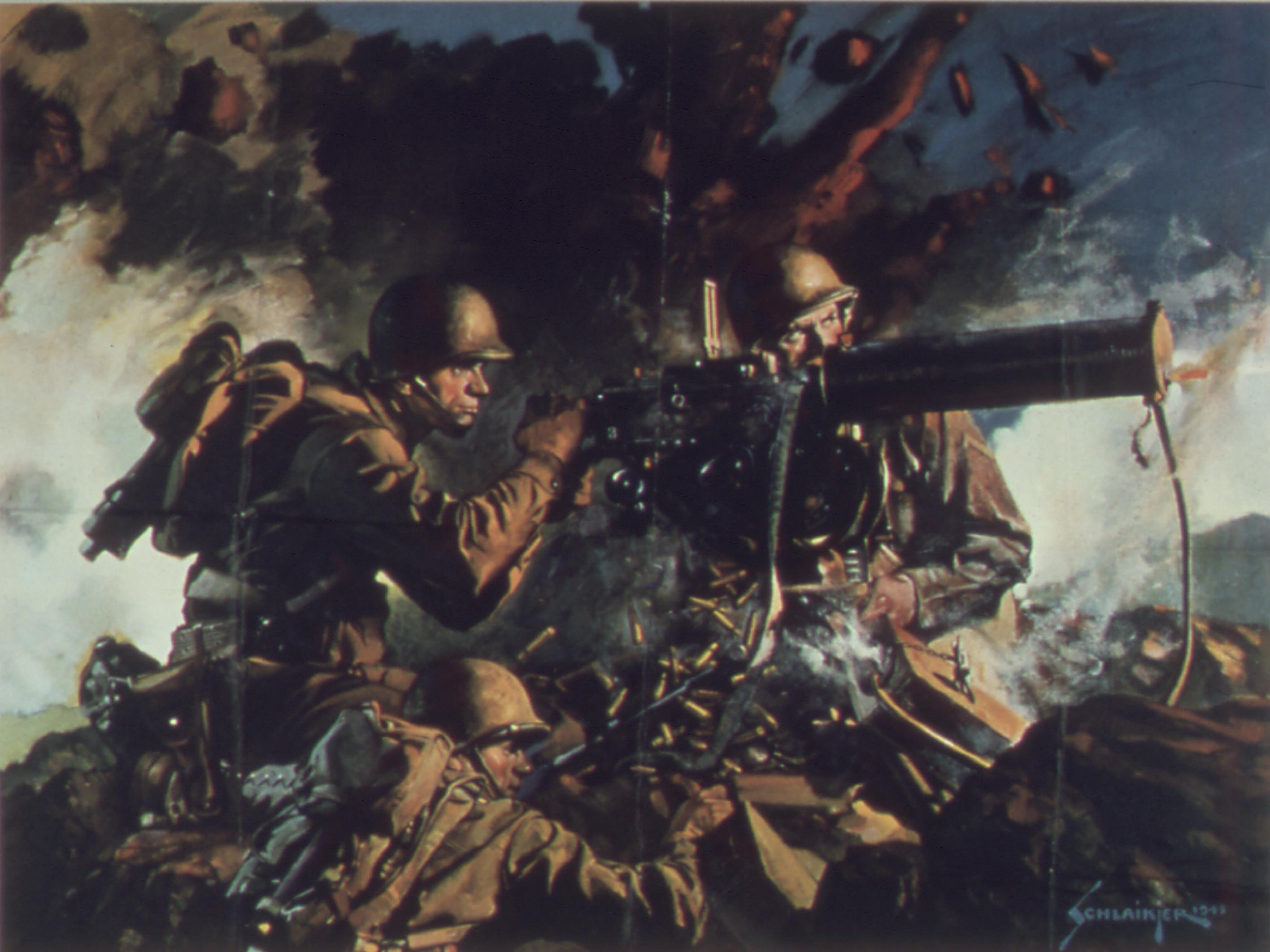 "In The Face Of Obstacles - Courage" US World War II propaganda poster for the US Infantry. Information here.